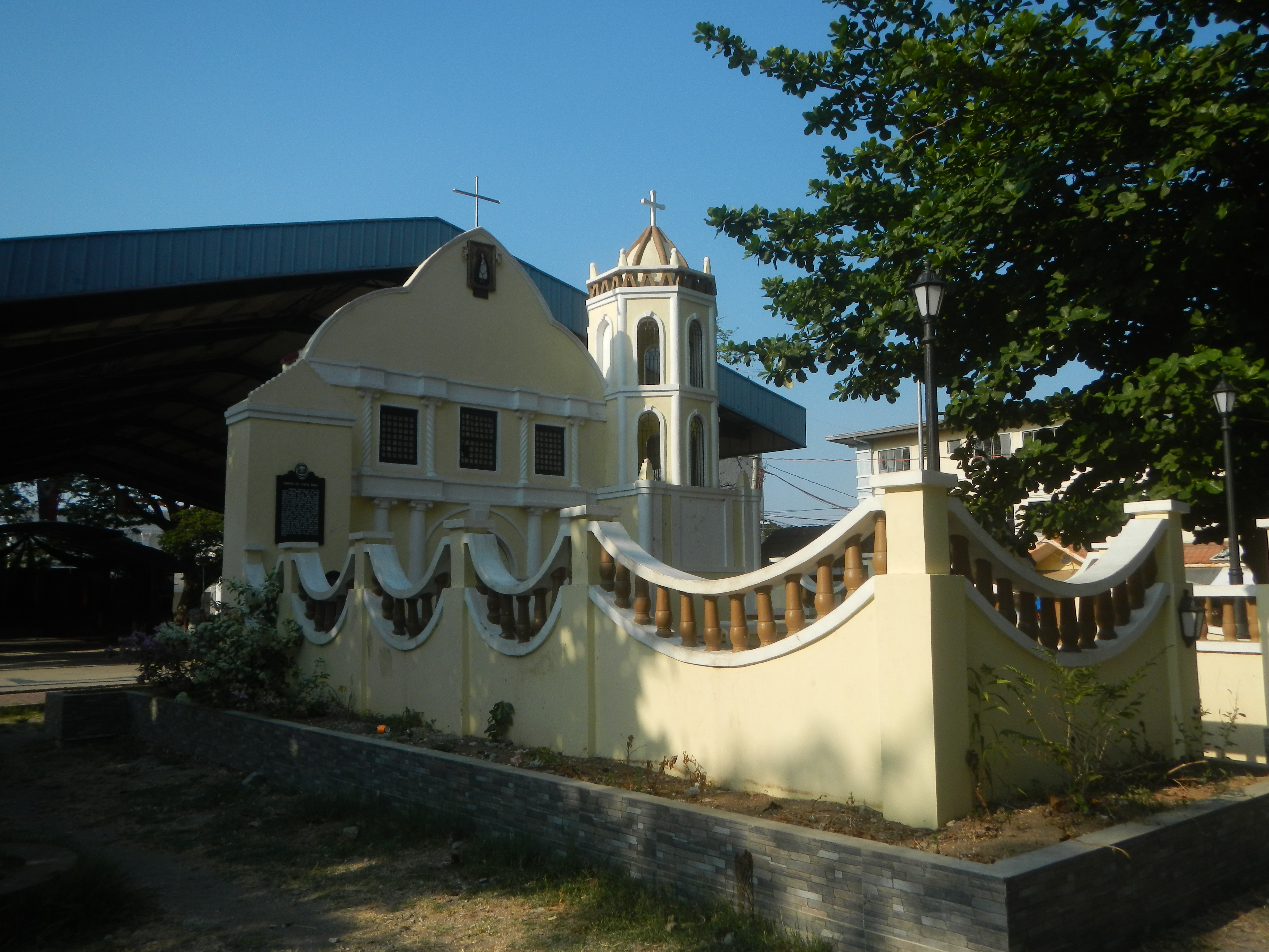 Site, replica and marker of Ermita de Porta Vaga 1667 New Cavite City Hall Cavite City clock tower Cavite City Port and Navy Yard - Bacoor Bay Cavite City Hall of Justice Negosyo Center Cavite City Cavite City park and children's playground Jose Rizal monuments in Cavite City Barangays 61-A (Talong A; Poblacion) & 62-A (Kangkong A; Poblacion), Cavite City from Dalahican Manila-Cavite Road Cavite City along Bacoor Bay Category:Barangays of Cavite Barangays Barangay 61-A (Talong A; Poblacion) 14.4802, 120.9036 Barangay 62-A (Kangkong A; Poblacion), Cavite City 14.4823, 120.9128 Cavite City N62 highway (Philippines) Philippine highway network (Note: Judge Florentino Floro, the owner, to repeat, Donor Florentino Floro of all these photos hereby donate gratuitously, freely and unconditionally Judge Floro all these photos to and for Wikimedia Commons, exclusively, for public use of the public domain, and again without any condition whatsoever).